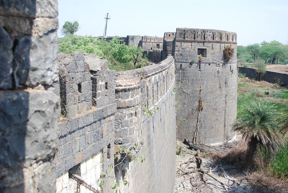 Bastions of Ahmednagar fort bastions